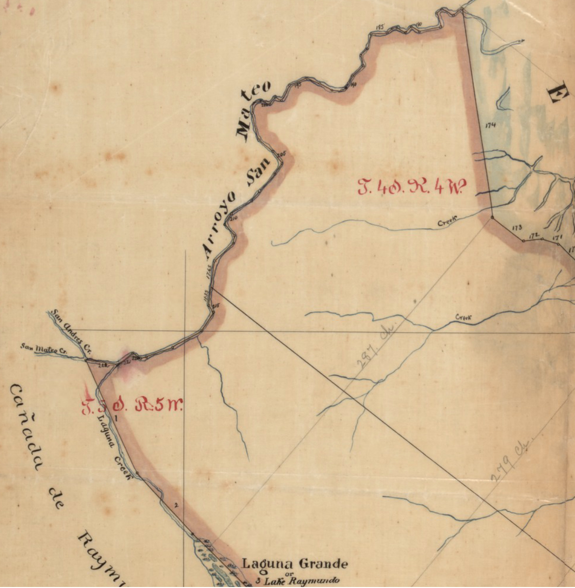 Early survey of San Mateo Creek in 1856 from bayside to San Andreas Valley